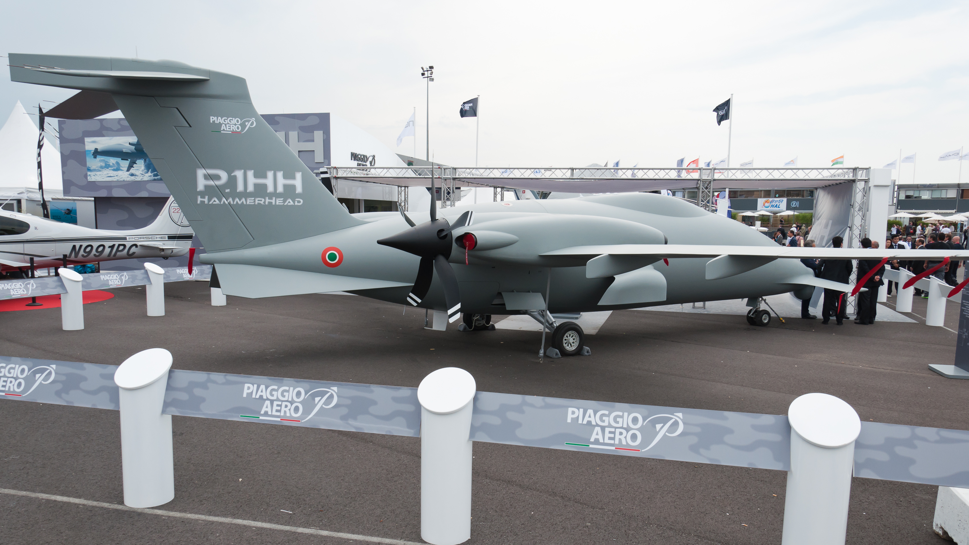 Piaggio P.1HH Hammerhead UAV mock-up at Paris Air Show 2013.